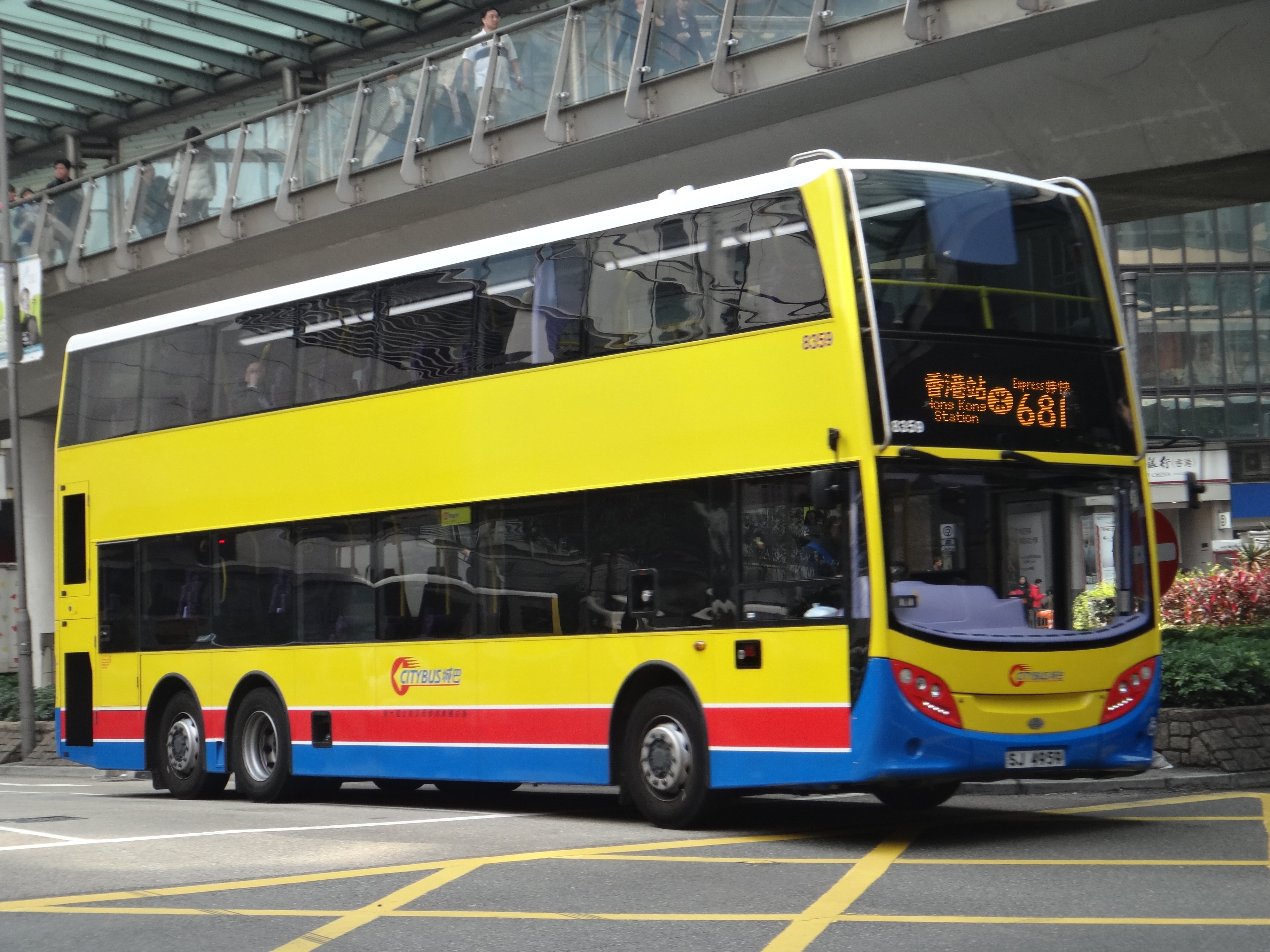 An Alexander-Dennis Enviro500 MMC operated by Citybus at Central, Hong Kong Island, Hong Kong.